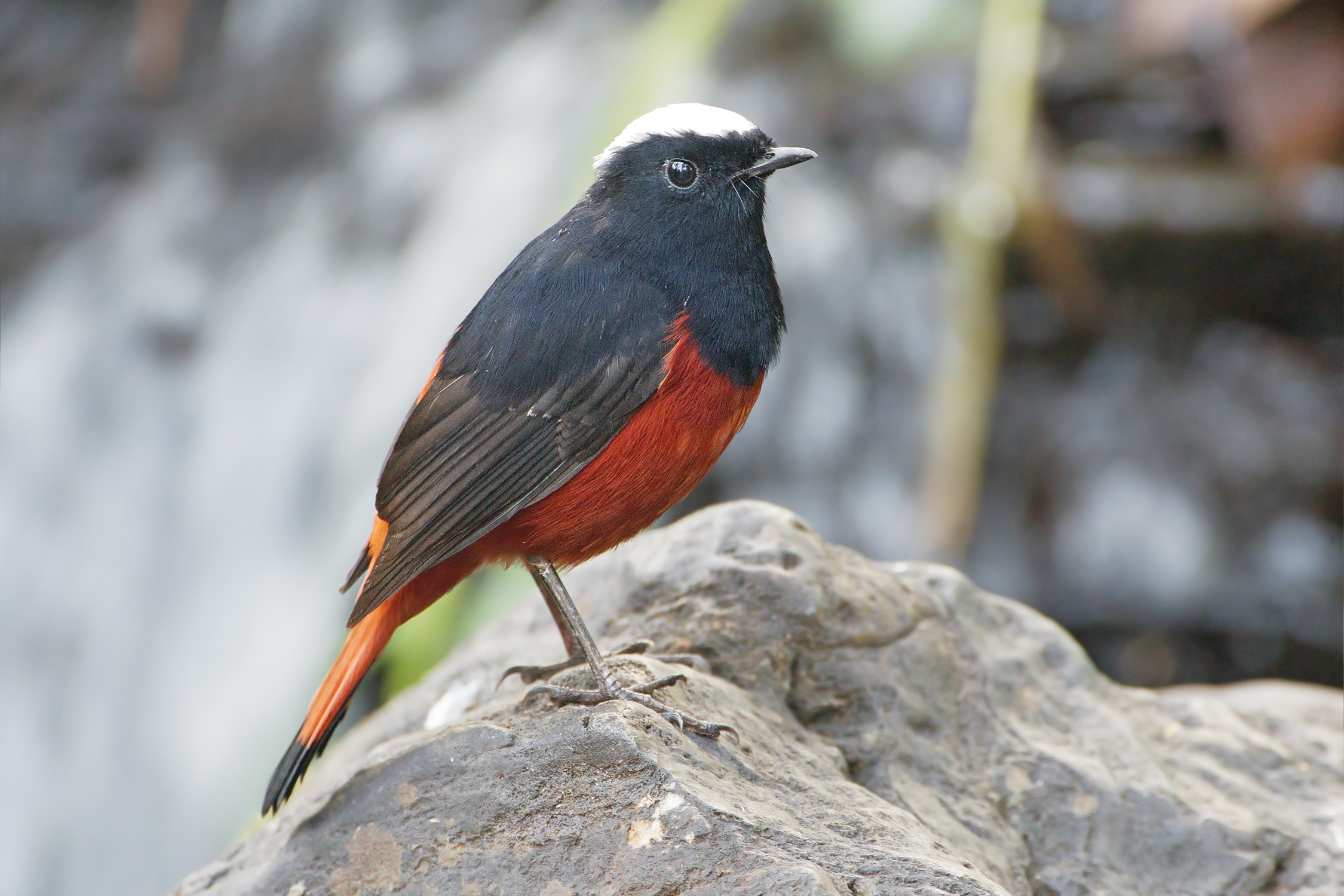 White-capped Water Redstart (Chaimarrornis leucocephalus), Doi Inthanon National Park, Chiang Mai, Thailand